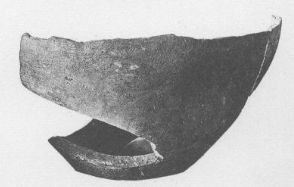 Remains of an urn from cremation burial T2